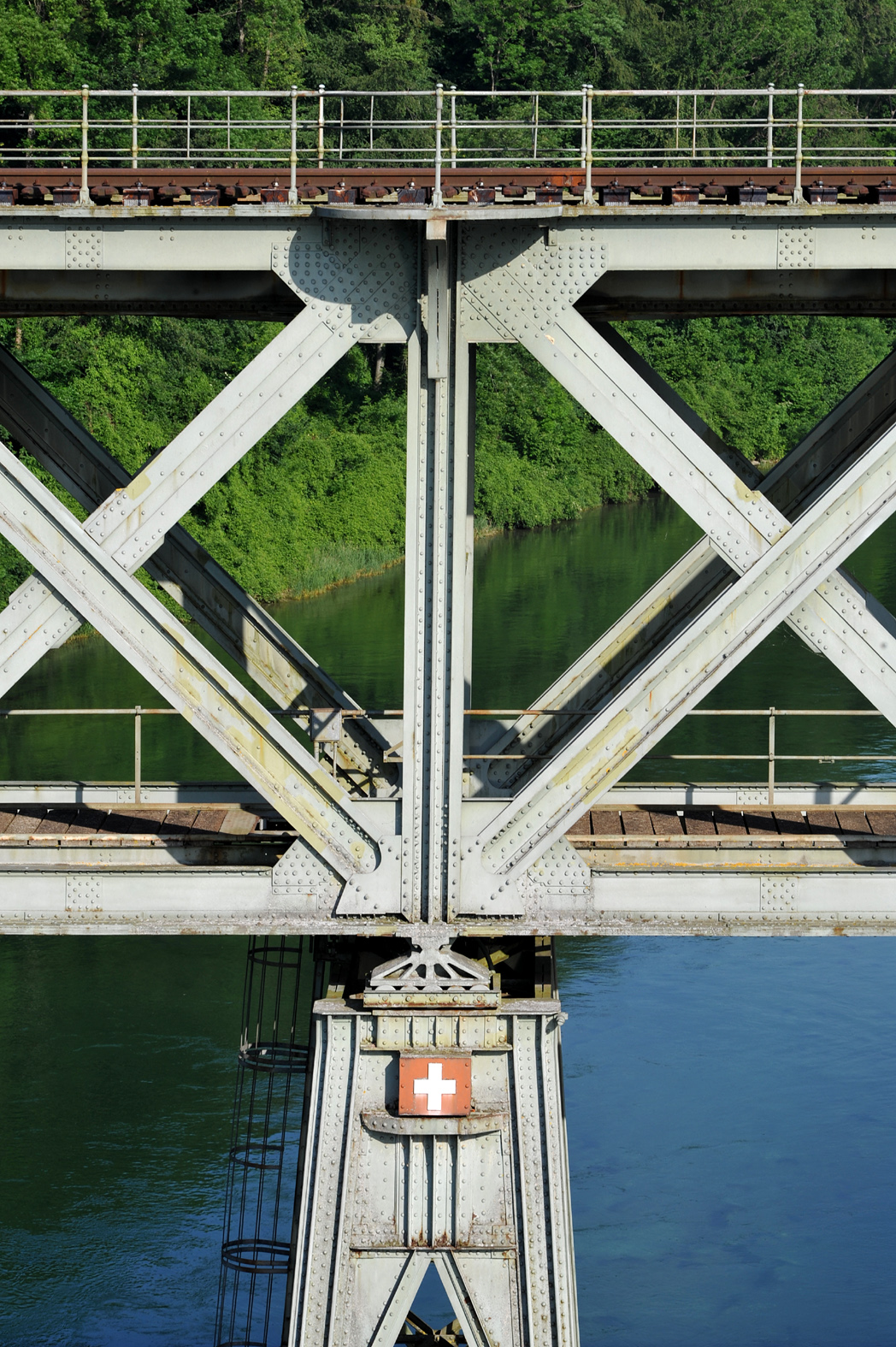 Railway bridge over river Rhine near Hemishofen, bearing on southern pylon; Schaffhausen and Thurgau, Switzerland: Sprengobjekt M0733